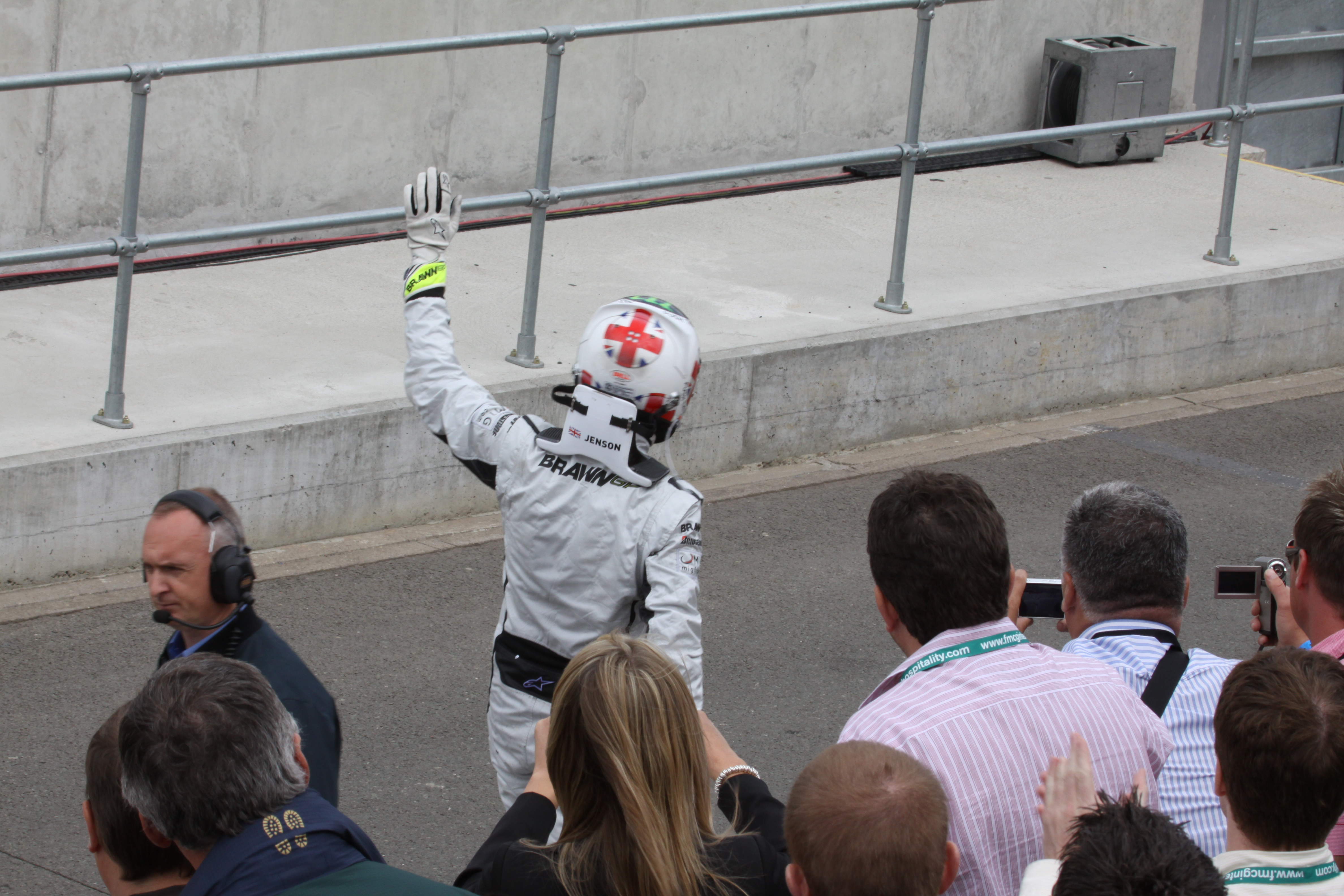 Button 2009 British GP